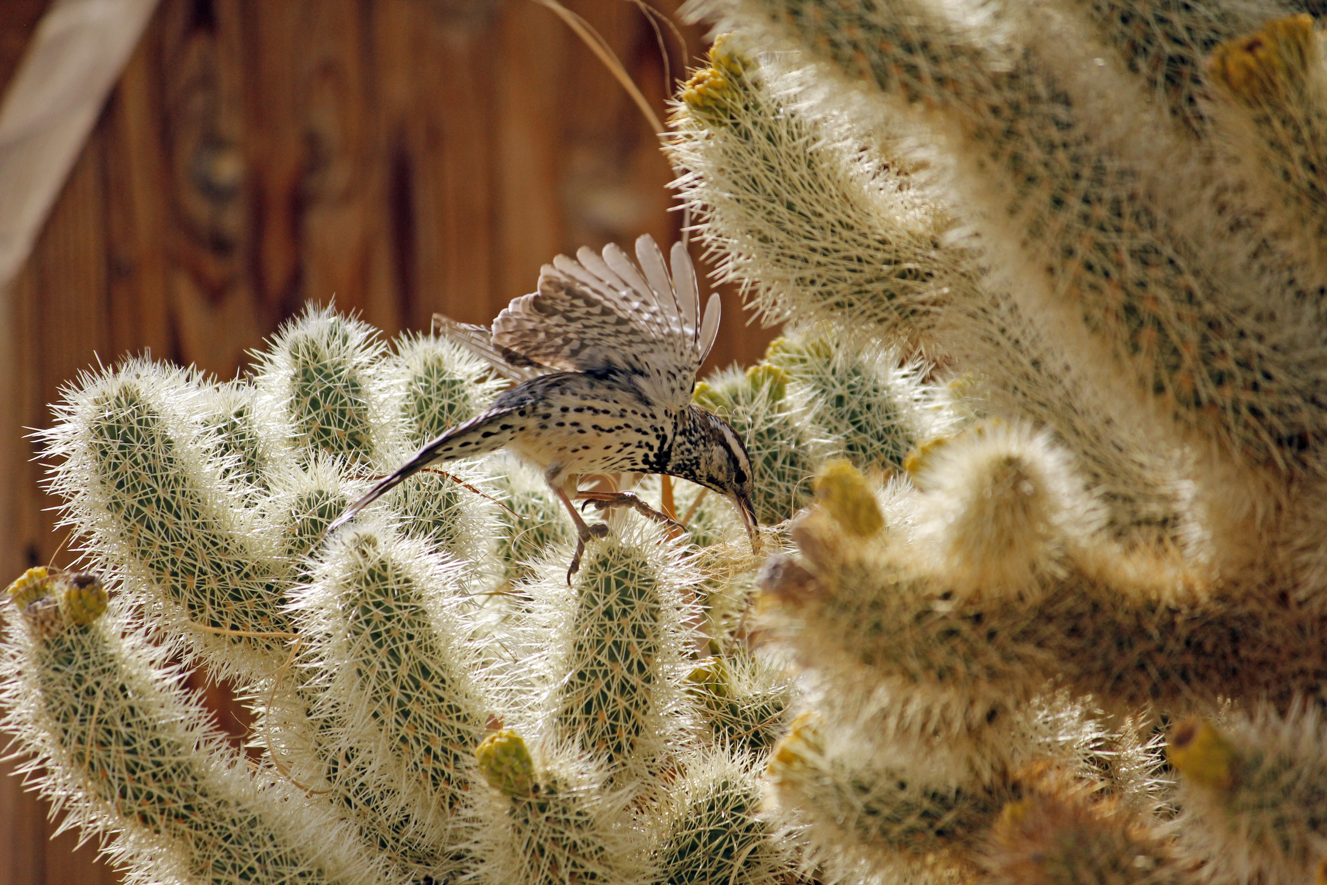 Birds in Joshua Tree National Park: Cactus wren (Campylorhynchus brunneicapillus) building a nest